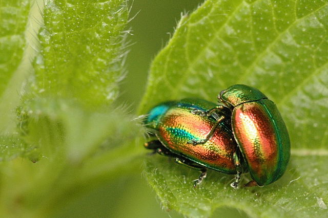 Picture taken in Commanster, Belgian High Ardennes . Species: Chrysolina fastuosa couple